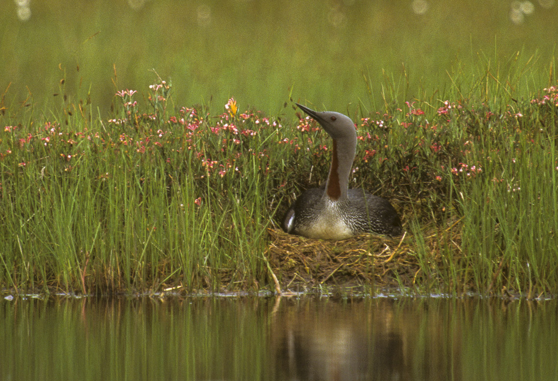 Red-throated Diver - Oulu - Finland 0010 (4)